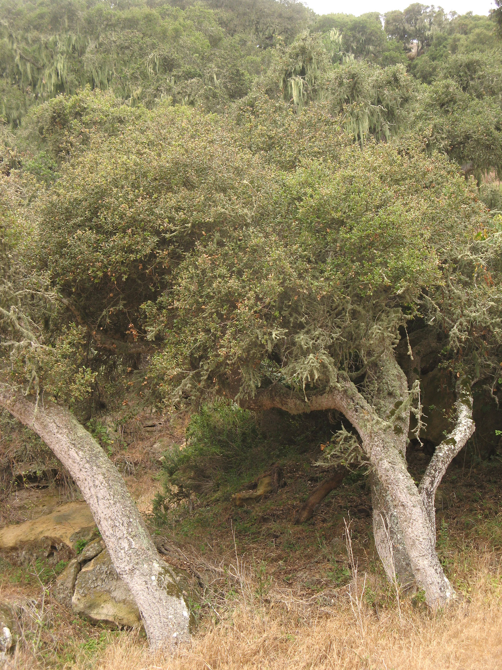 Quercus tomentella — Island Oak, forming a woodland grove. In Lobo Canyon on Santa Rosa Island, of the northern Channel Islands, in Santa Barbara County, California. Endemic tree of the Channel Islands of California.